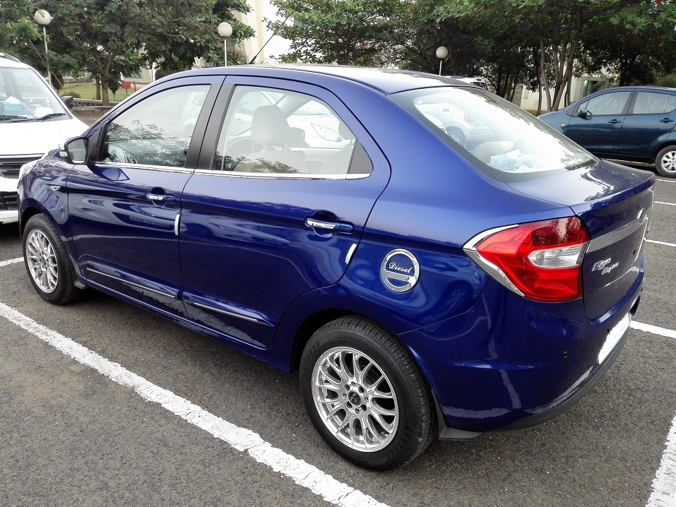 Mildly modified Figo Aspire in India